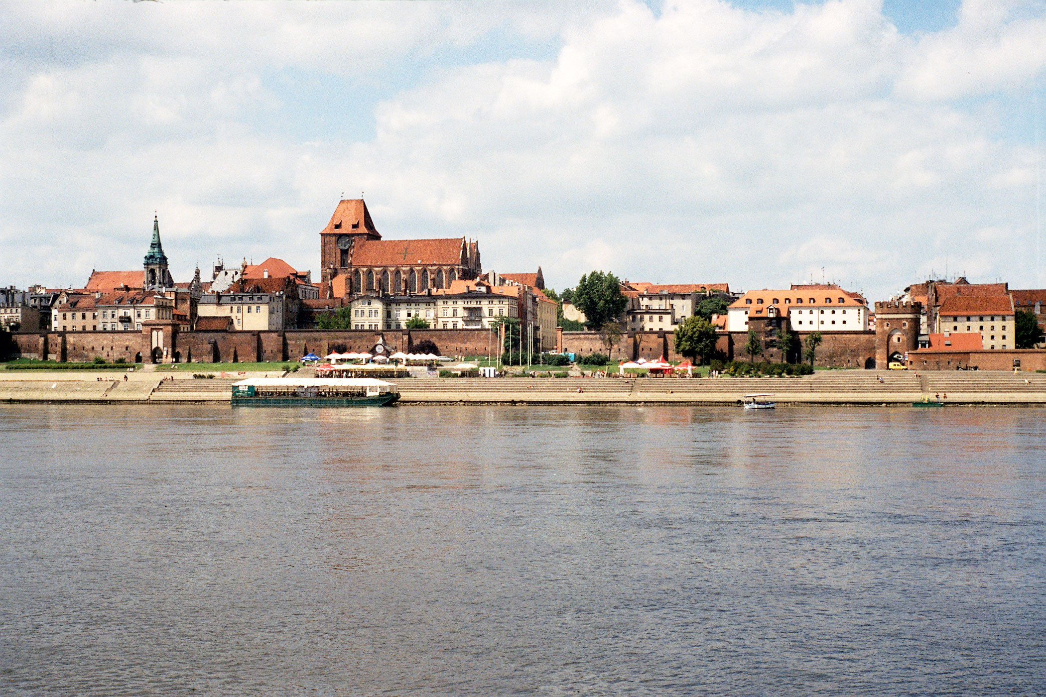 Old Town in Toruń from the left side of the Vistula